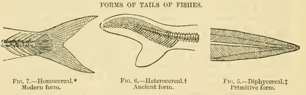 Types of tail fins of fishes